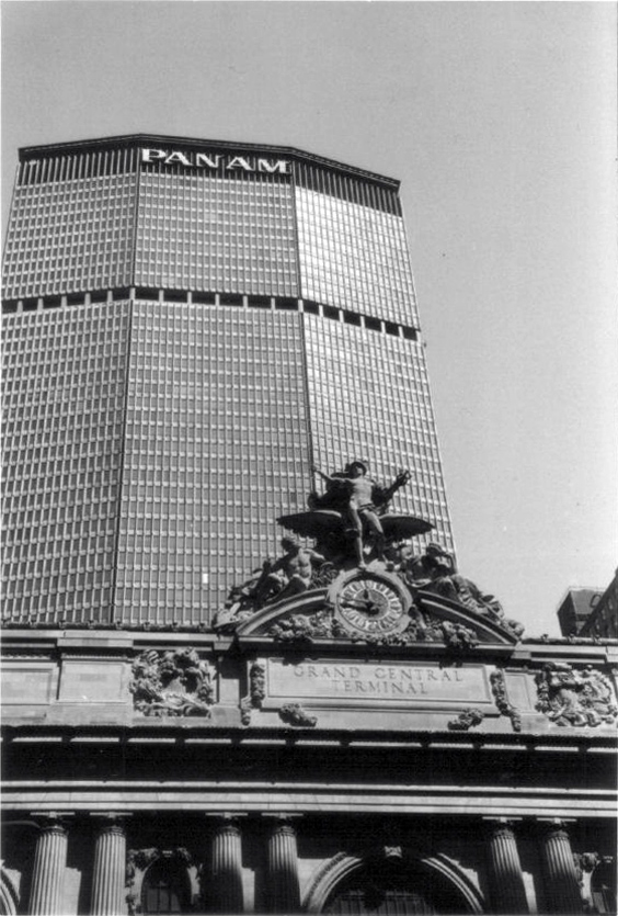 Pan Am Building (now the MetLife Building) circa 1980's, with part of Grand Central Terminal in the foreground